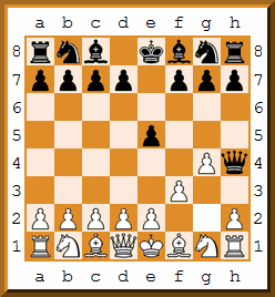 Un-animated version of